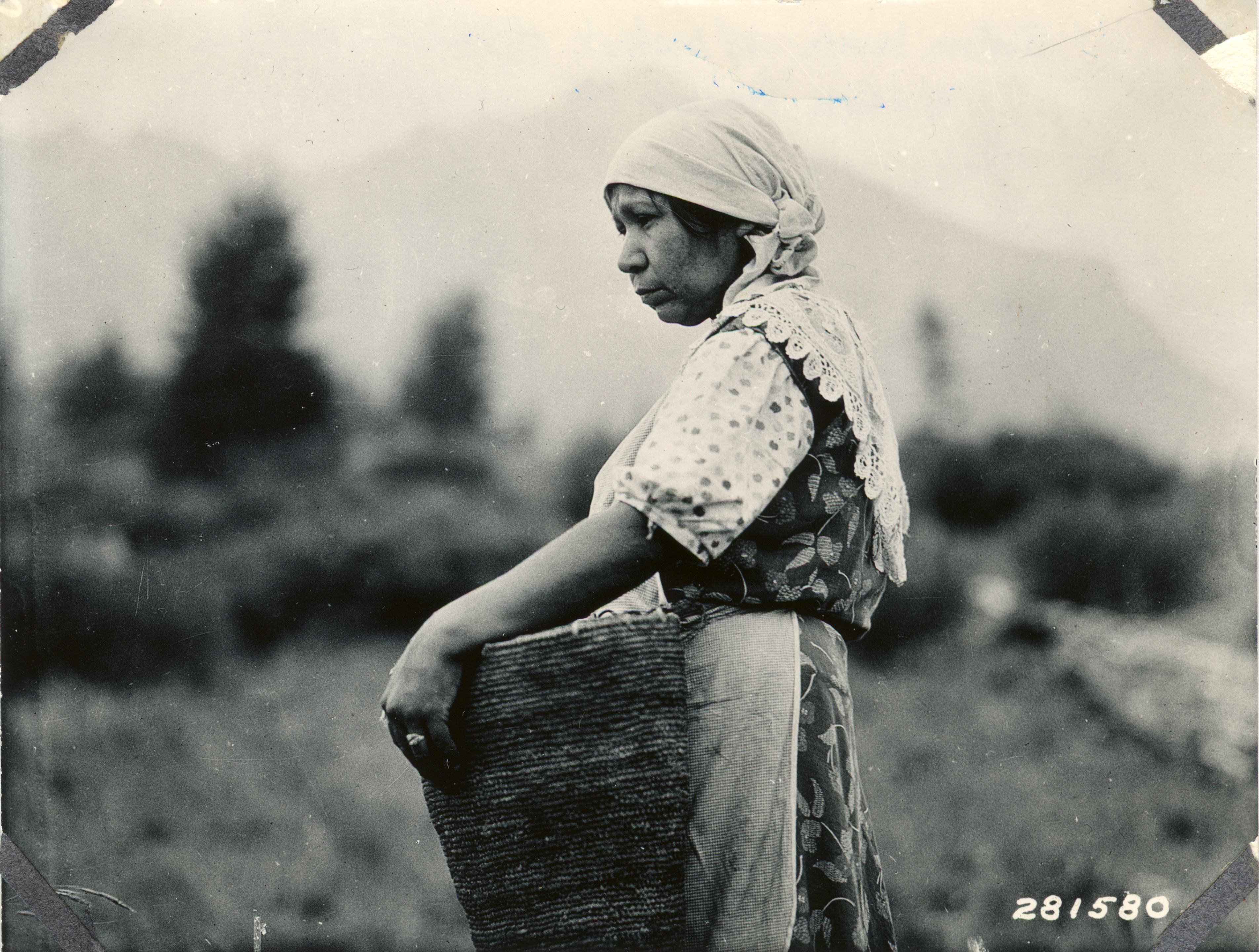 Description/Notes: Photo was taken on Gifford Pinchot National Forest.U.S. Forest Service photo #281580 Original Collection: Gerald W. Williams Collection Item Number: WilliamsG:USFS281580 You can find this image by searching for the item number by clicking here. Want more? You can find more digital resources online. We're happy for you to share this digital image within the spirit of The Commons; however, certain restrictions on high quality reproductions of the original physical version may apply. To read more about what “no known restrictions” means, please visit the Special Collections & Archives website, or contact staff at the OSU Special Collections & Archives Research Center for details.